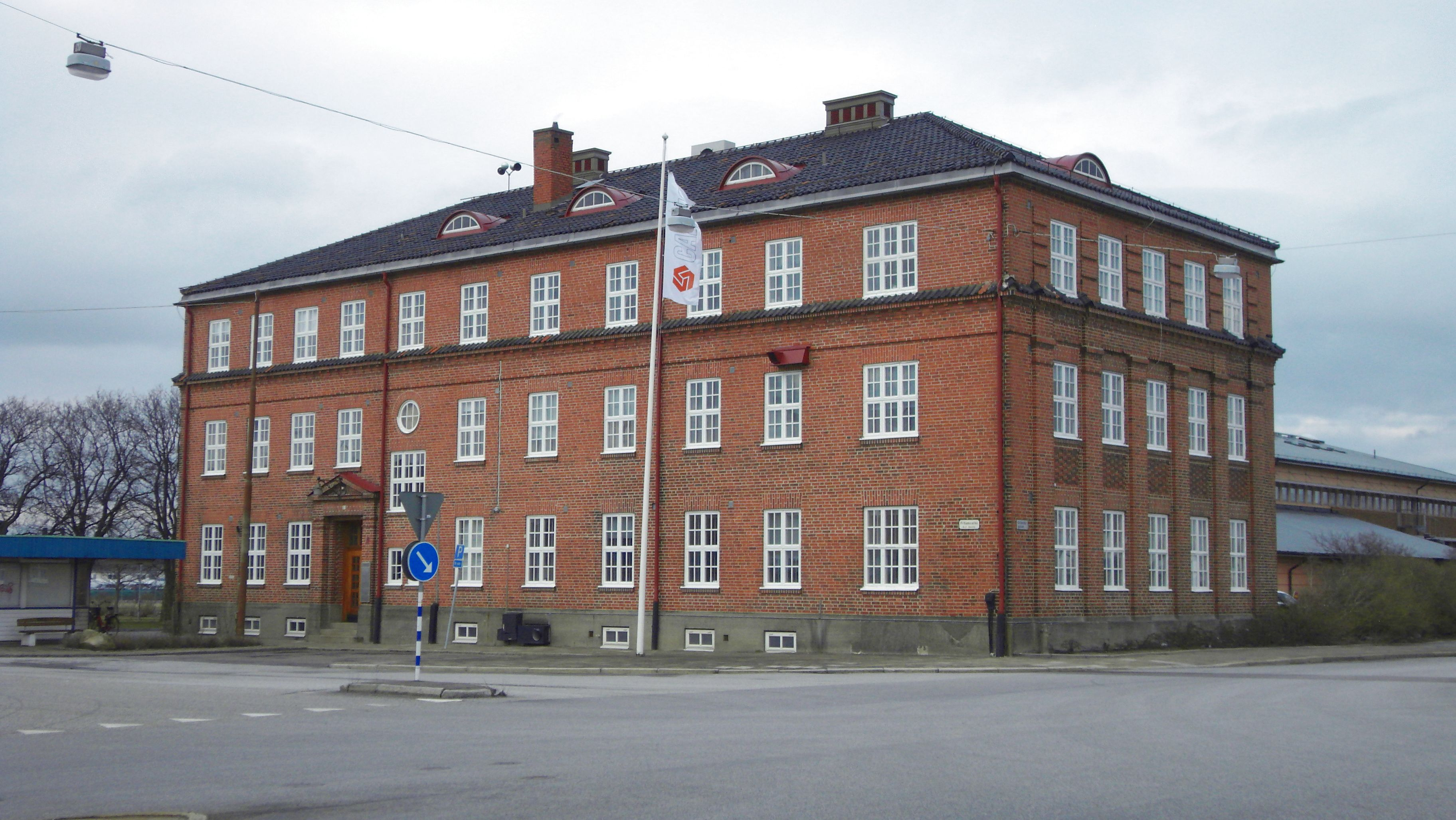 Front view of an old building in the neighbourhood Frihamnen (literally "freeharbor") in Malmö, Sweden.